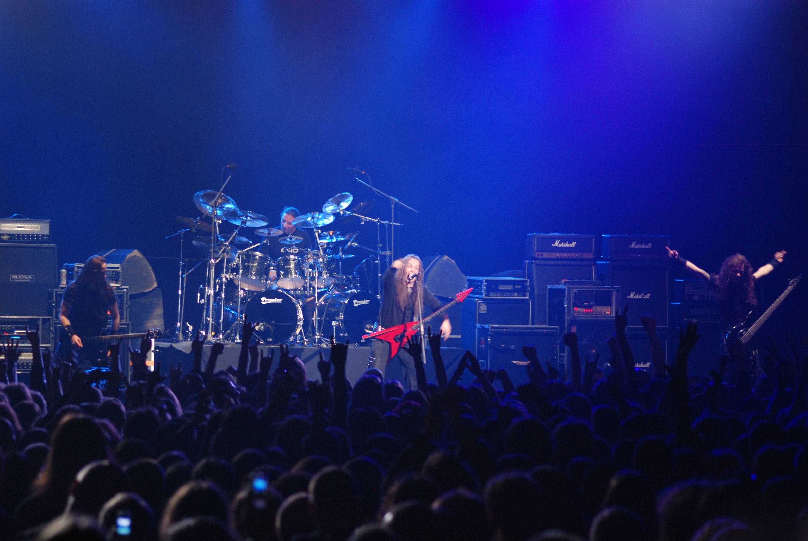 Vader during Metalmania 2008 festival